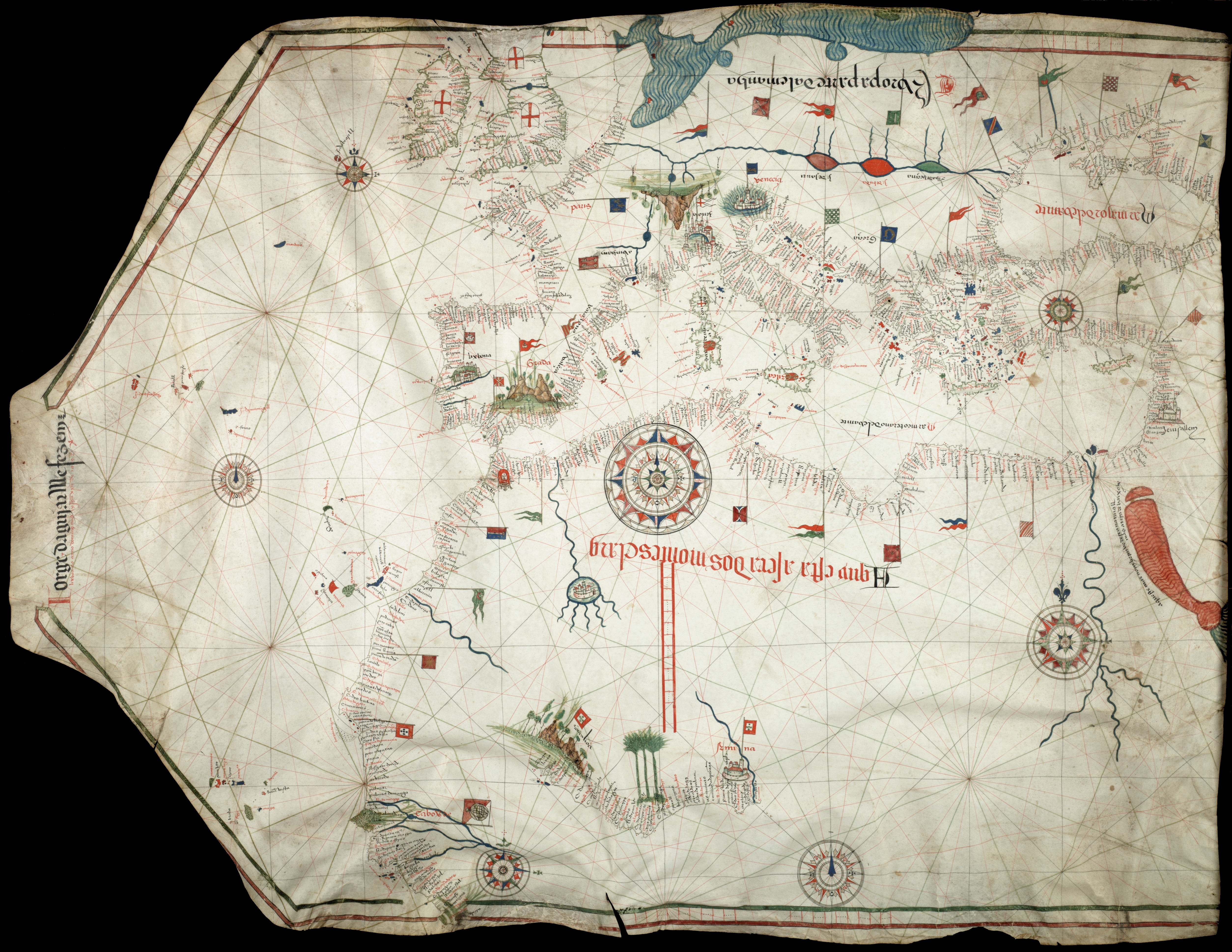 Reproduction of Jorge de Aguiar's chart of the Mediterranean, Western Europe and African Coast (1492). Size of the original: 1030 × 770 mm.